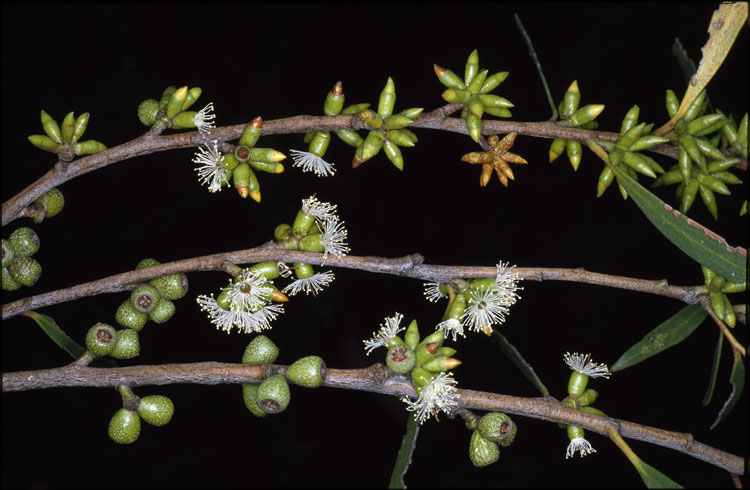 Flowers and fruit of Eucalyptus moorei in the Australian National Botani Gardens